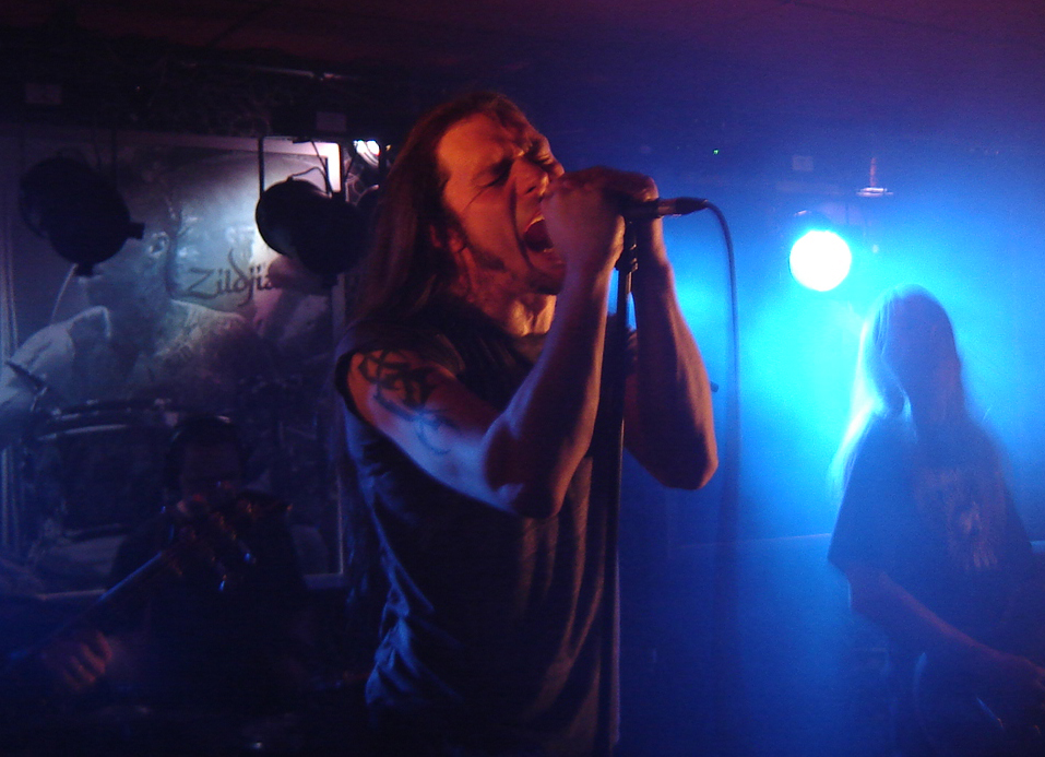 Finnish metal singer JP Leppäluoto on a gig with Charon at Art Rock Cafe, Kauhajoki, Finland in 27th April 2009.